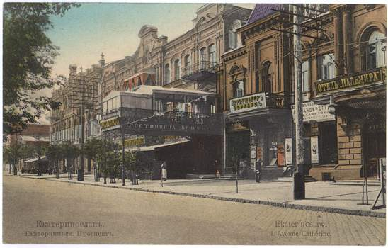 Ekaterinoslav (now Dnepropetrovsk) in 1910s